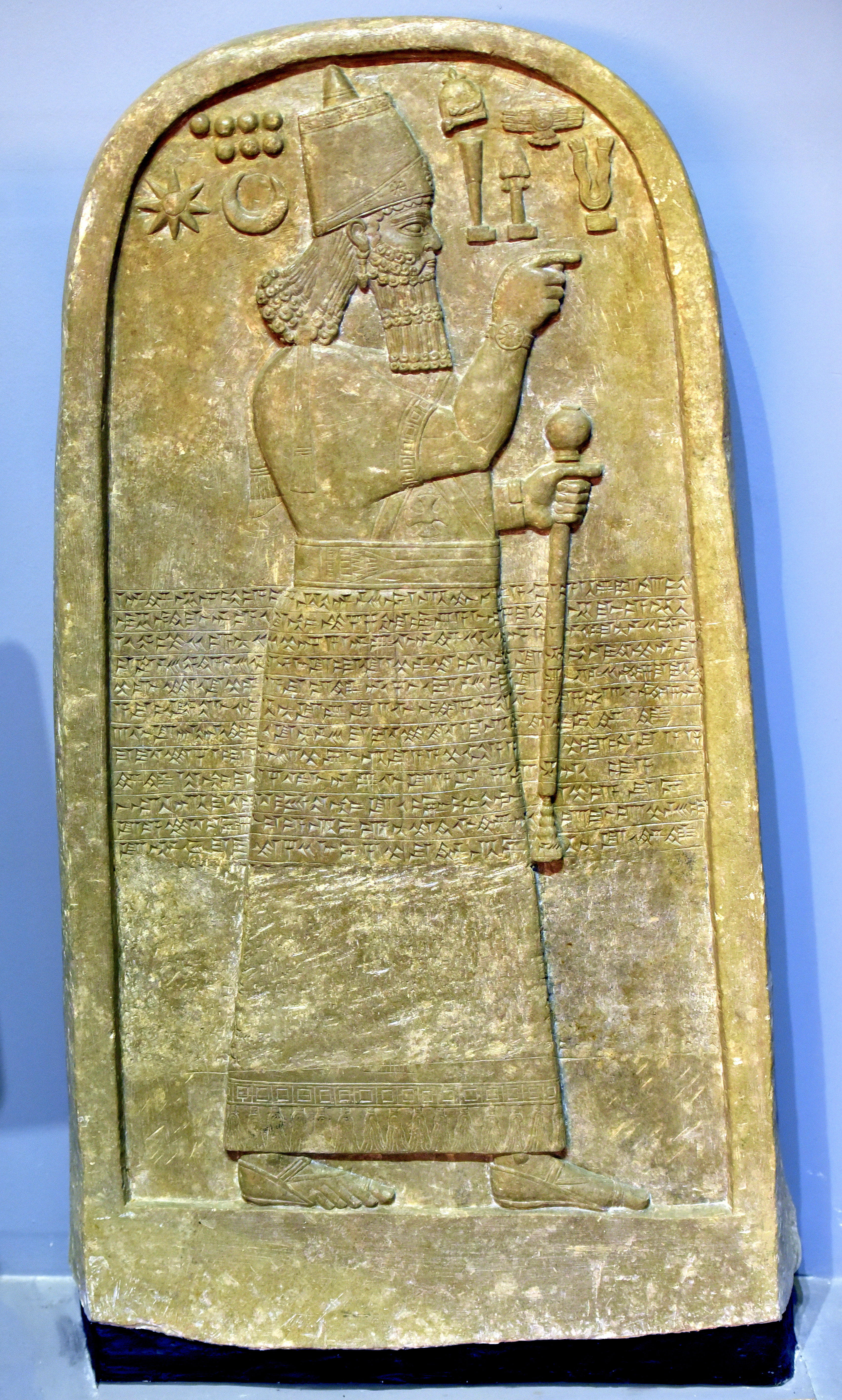 The so-called Tell al Rimah stele of Adad-nirari III. This "Mosul marble" stele depicts the Assyrian king Adad-Nirari III (reigned 810-783 BCE) praying before gods and goddesses symbols (Ishtar, Sin, Sibitti, Nabu, Marduk, Adad, Anu, and Assur). The cuneiform inscriptions mention the king's titles and military campaigns. The name of Jehoash the Samarian was mentioned, who paid tribute to the king. From Tell al Rimah, in modern-day Nineveh Governorate, Iraq. On display at the Iraq Museum in Baghdad, Republic of Iraq.